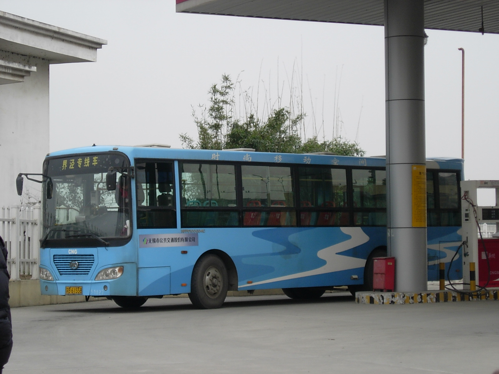 Bus of Wuxi, Jiejing Line. This bus have no air conditioner.